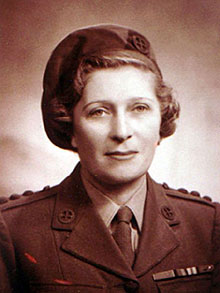 Lise de Baissac in a FANY uniform after she joined the Special Operations Executive.